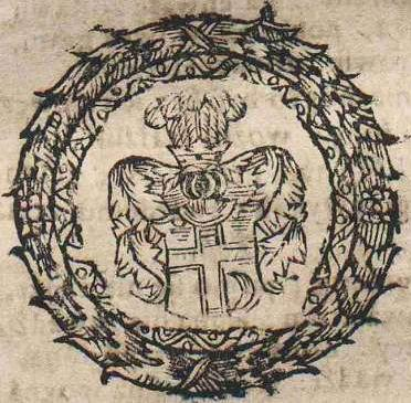 Tarnawa coat of arms by Wacław Potocki